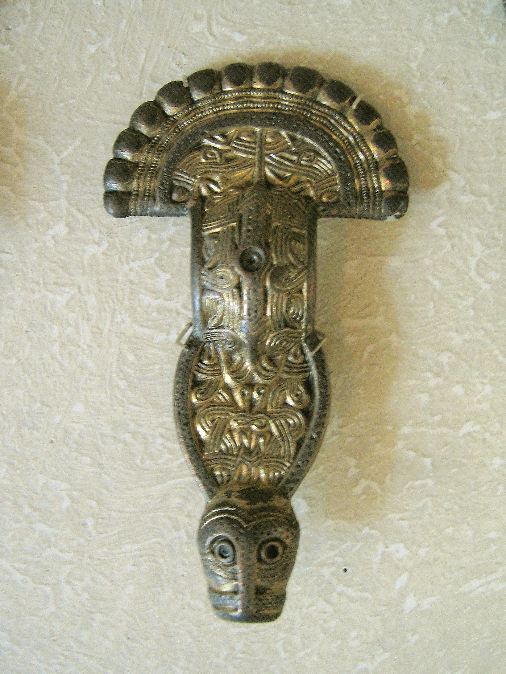 The so-called large Rune Fibula of Nordendorf II. Found in 1844 in an Alemannic grave field of mid 6th to late 6th century A.D. (Düwel, Klaus: Runenkunde. 4., überarbeitete und aktualisierte Auflage, Stuttgart 2008, p. 63 and Runenprojekt Kiel) near Nordendorf, Bavaria, Germany. The fibula bears a runic inscription on the back side of its head plate: birl[i]n io elk. Photographed at the Römisches Museum Augsburg, Germany.